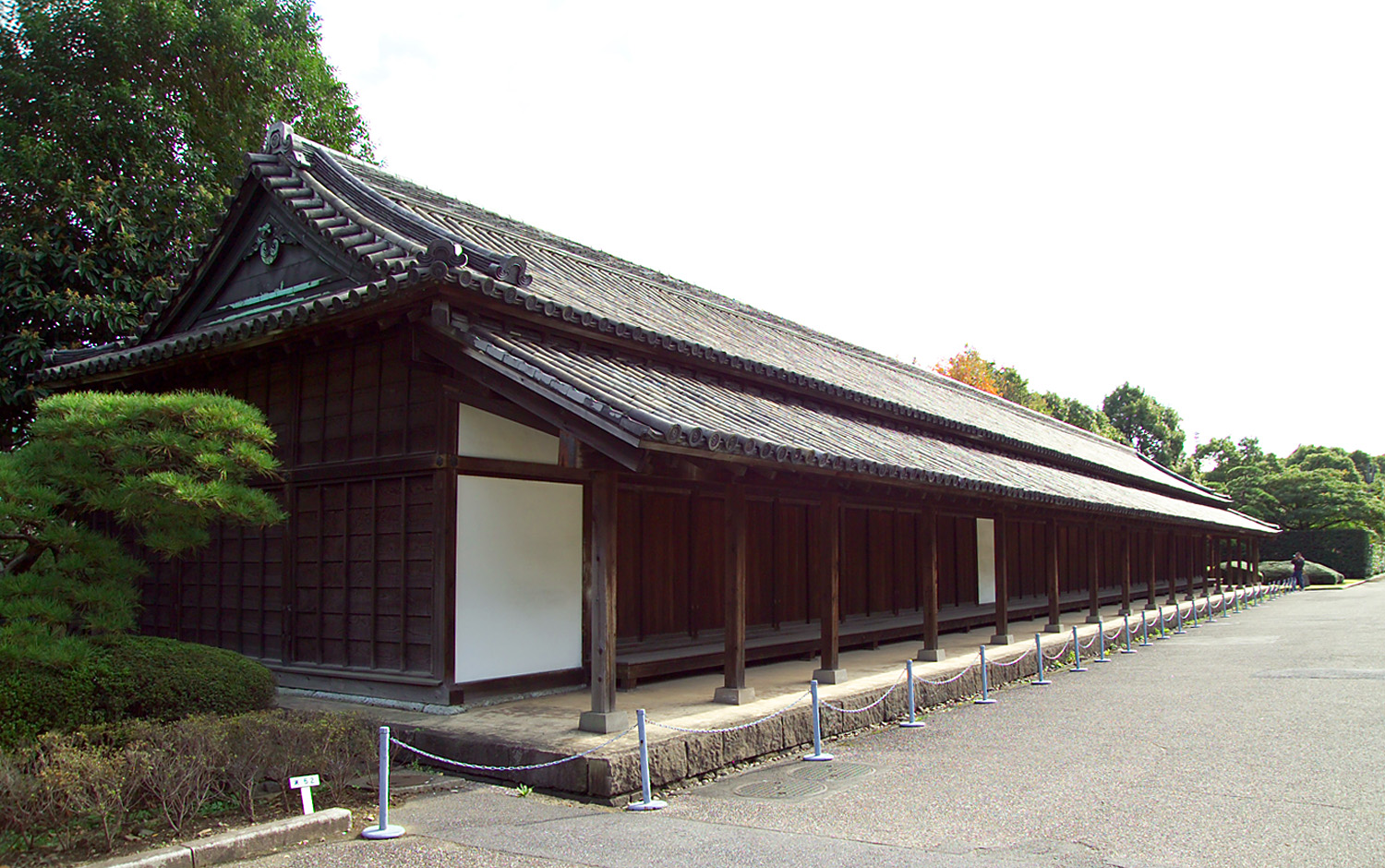 This photo shows Hyakunin Bansho (former guard house) inside the Otemon (Great Gate) of the Kokyo (Imperial Palace, formerly Edo Castle) in Tokyo, Japan. A hundred samurai worked in shifts to man this guardhouse. I took the photo and contribute my rights in the file to the public domain; individuals and organizations retain rights to images in the file.